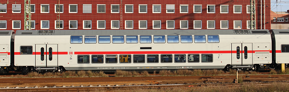 Brand new "Intercity 2" second class coach D-DB 50 80 26-81 456-8, used for personnel training at Bremen Hbf depot. The "Intercity 2" trainsets went into regular service on 12/13/2015.